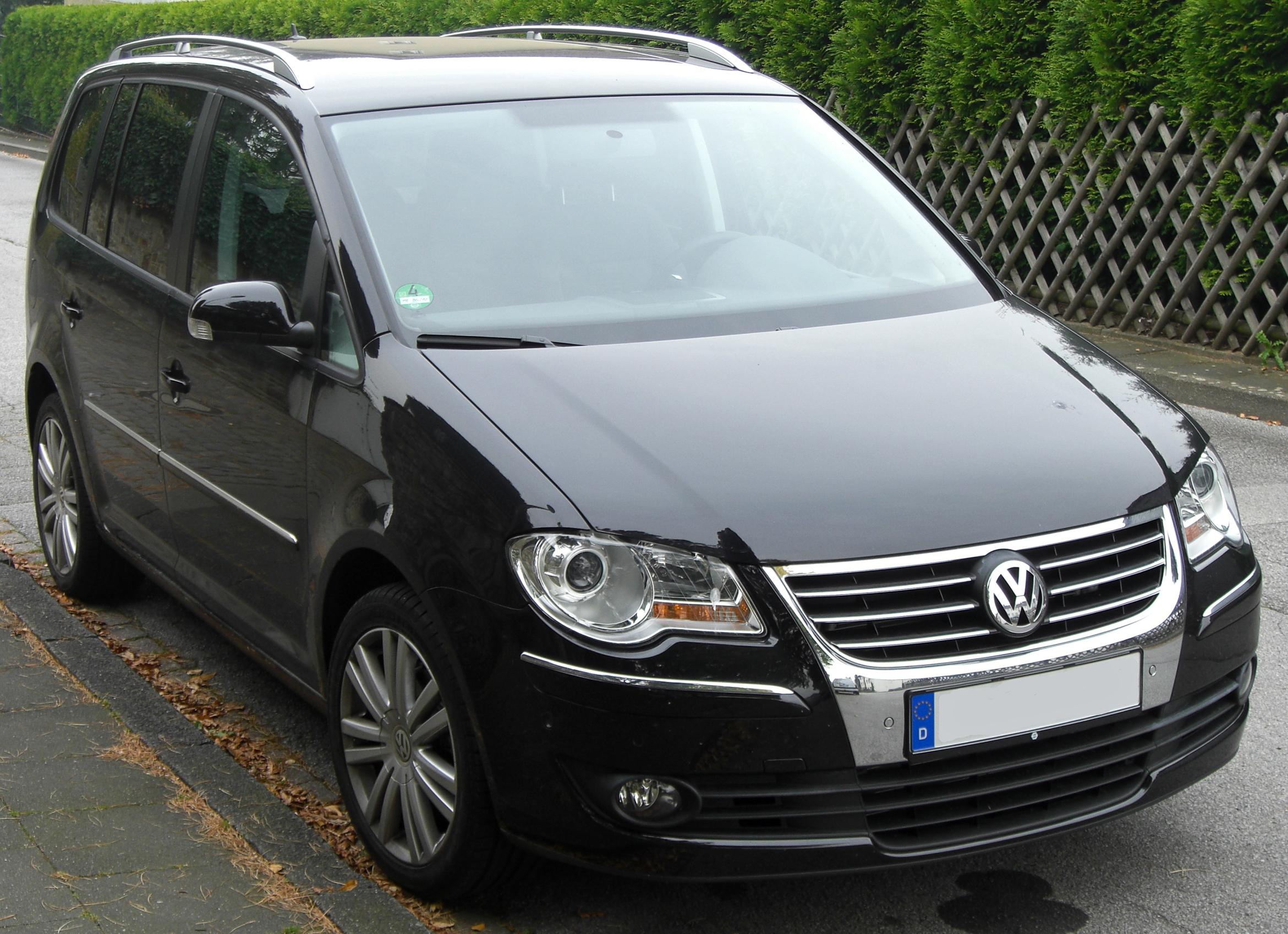 VW Touran Facelift